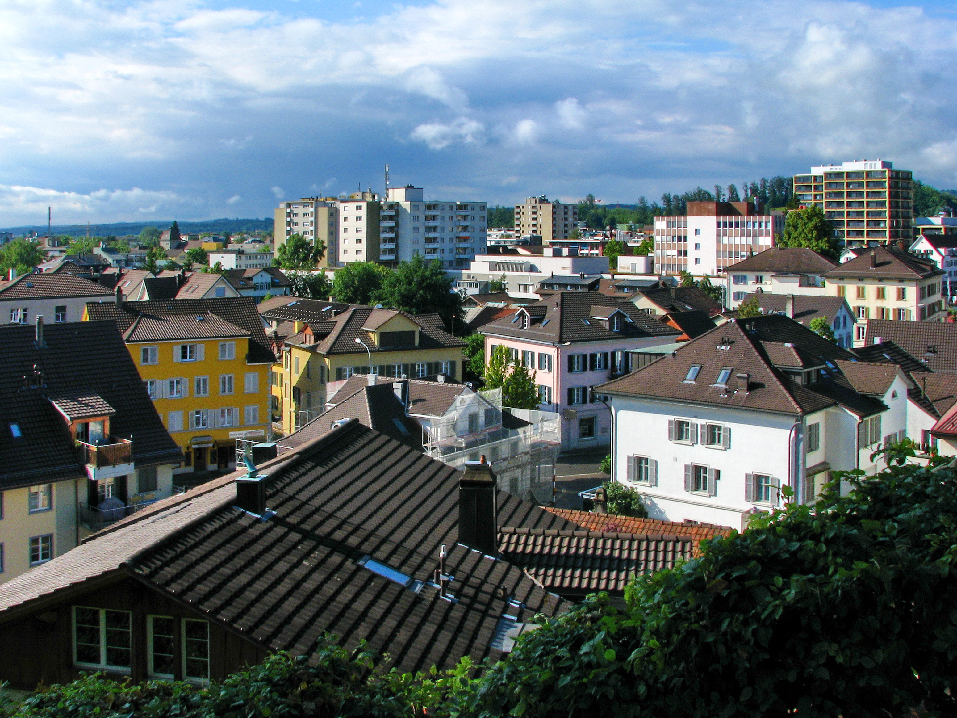 Uster-Kirchuster and inner city as seen from Uster castle